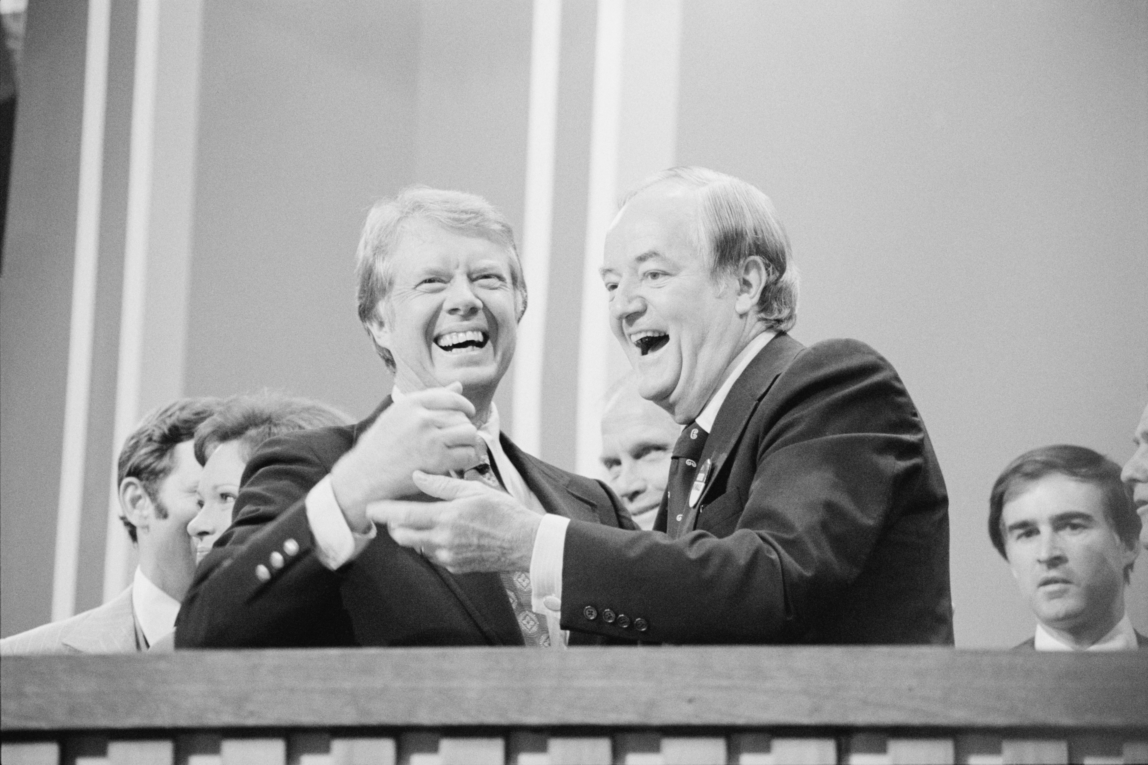 Jimmy Carter and Sen. Hubert Humphrey at the Democratic National Convention, New York City.